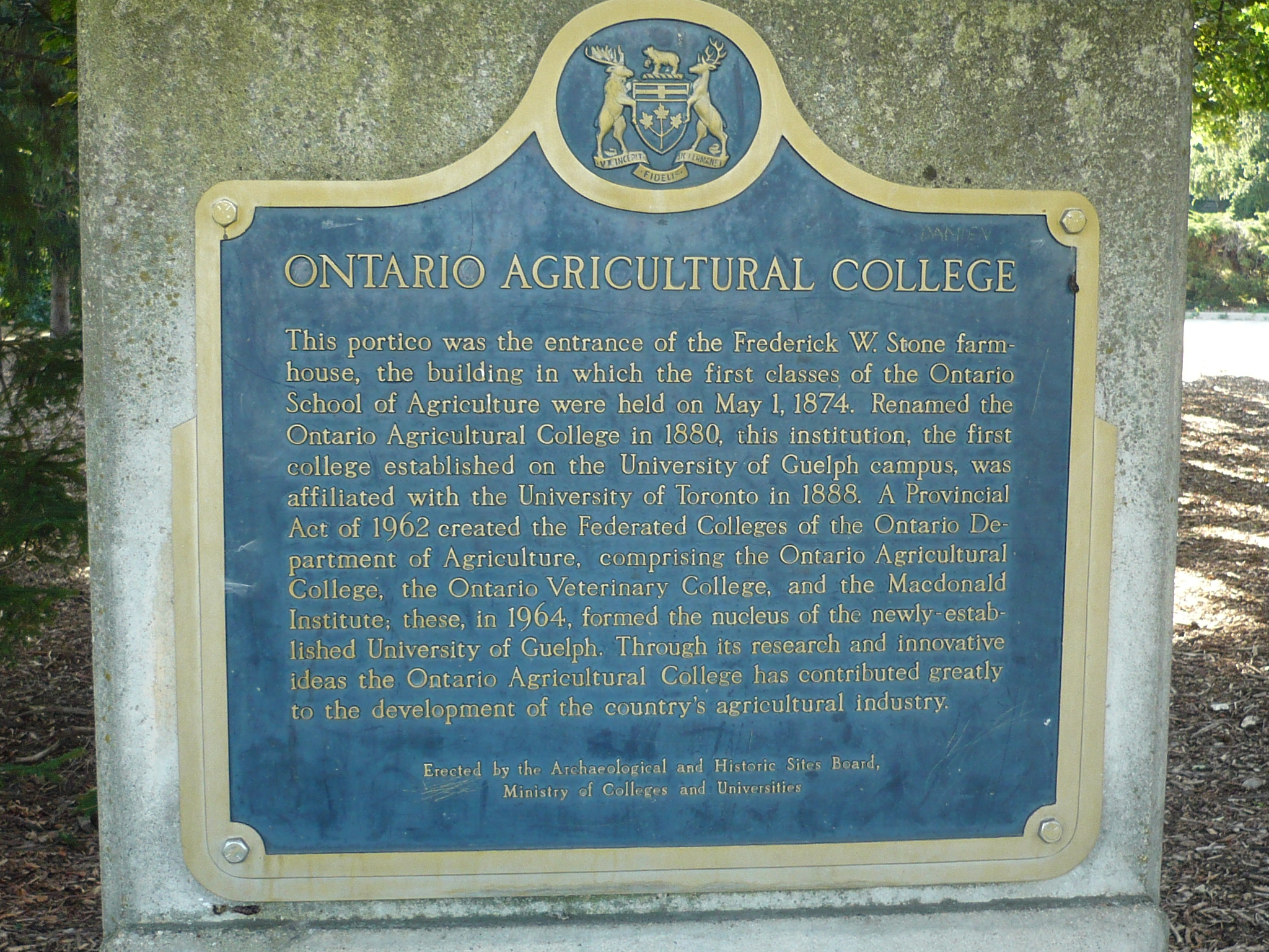 OAC Sign